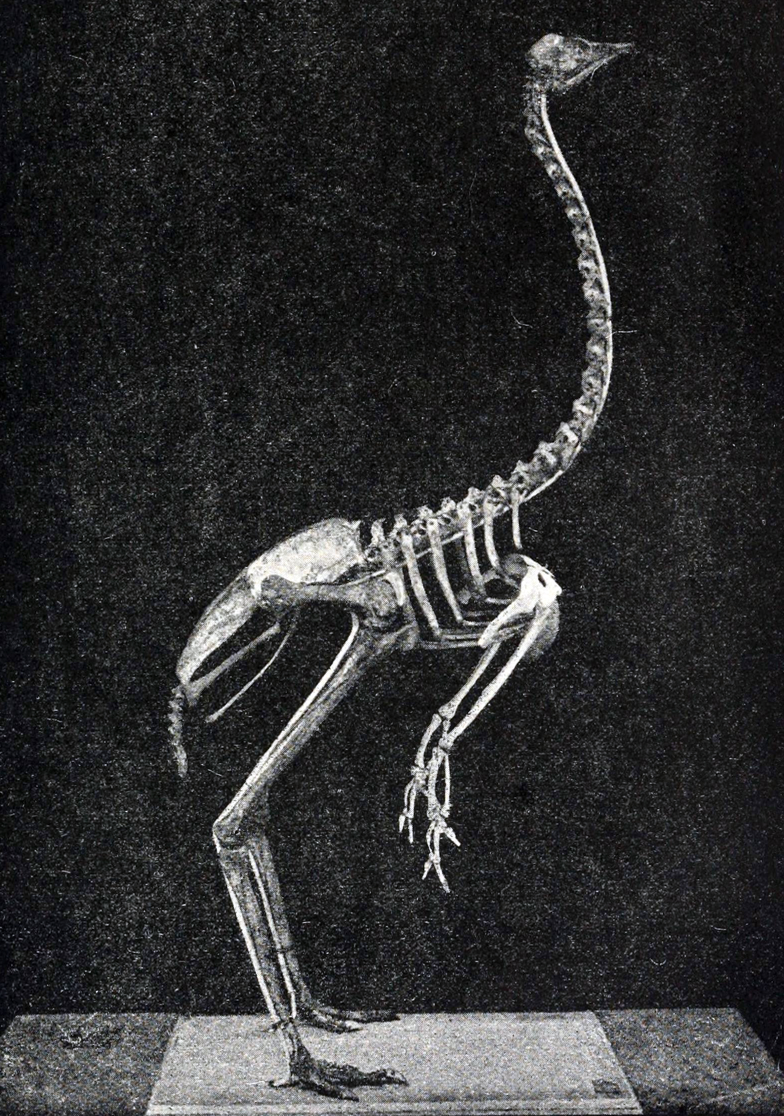 On a Specimen of the Extinct Dromceus ater discovered in the Royal Zoological Museum, Florence. THE IBIS, QUARTERLY JOURNAL OF ORNITHOLOGY. VOL. I. Eighth Series 1901.